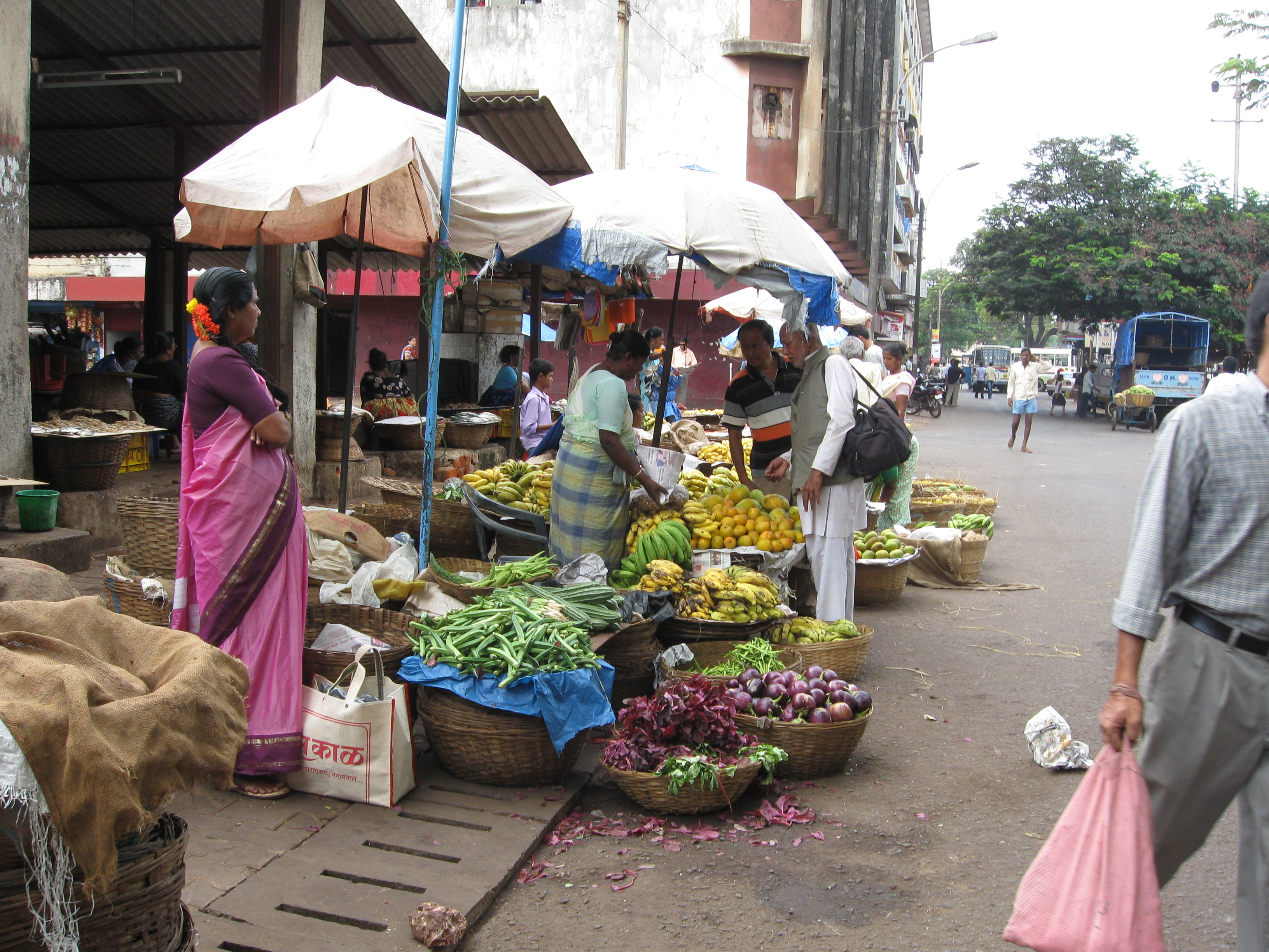 Vasco's main fish and produce market located near the main bus stand